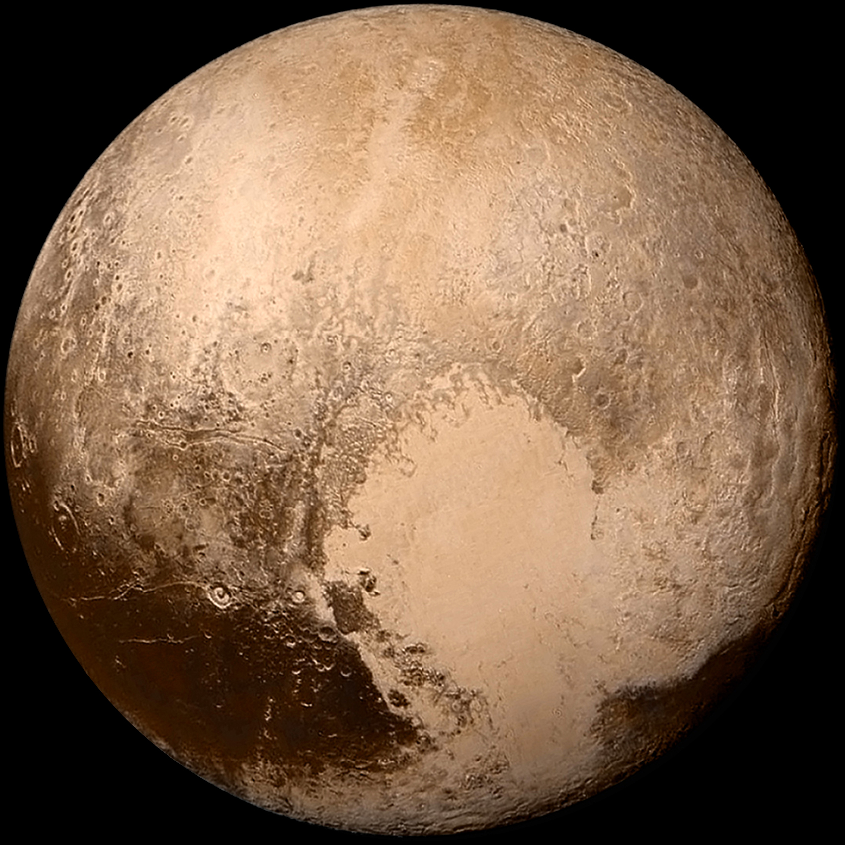 PLUTO - NEW HORIZONS - July 14, 2015 ORIGINAL IMAGE DESCRIPTION: Four images from New Horizons’ Long Range Reconnaissance Imager (LORRI) were combined with color data from the Ralph instrument to create this global view of Pluto. (The lower right edge of Pluto in this view currently lacks high-resolution color coverage.) The images, taken when the spacecraft was 280,000 miles (450,000 kilometers) away, show features as small as 1.4 miles (2.2 kilometers), twice the resolution of the single-image view taken on July 13 [2015]. UPLOADER NOTES: The north polar region is at top, with bright Tombaugh Regio to the lower right of center and part of the dark Cthulhu Regio at lower left. Part of the dark Krun Regio is also visible at extreme lower right. The original NASA image has been modified by doubling the linear pixel density and cropping.